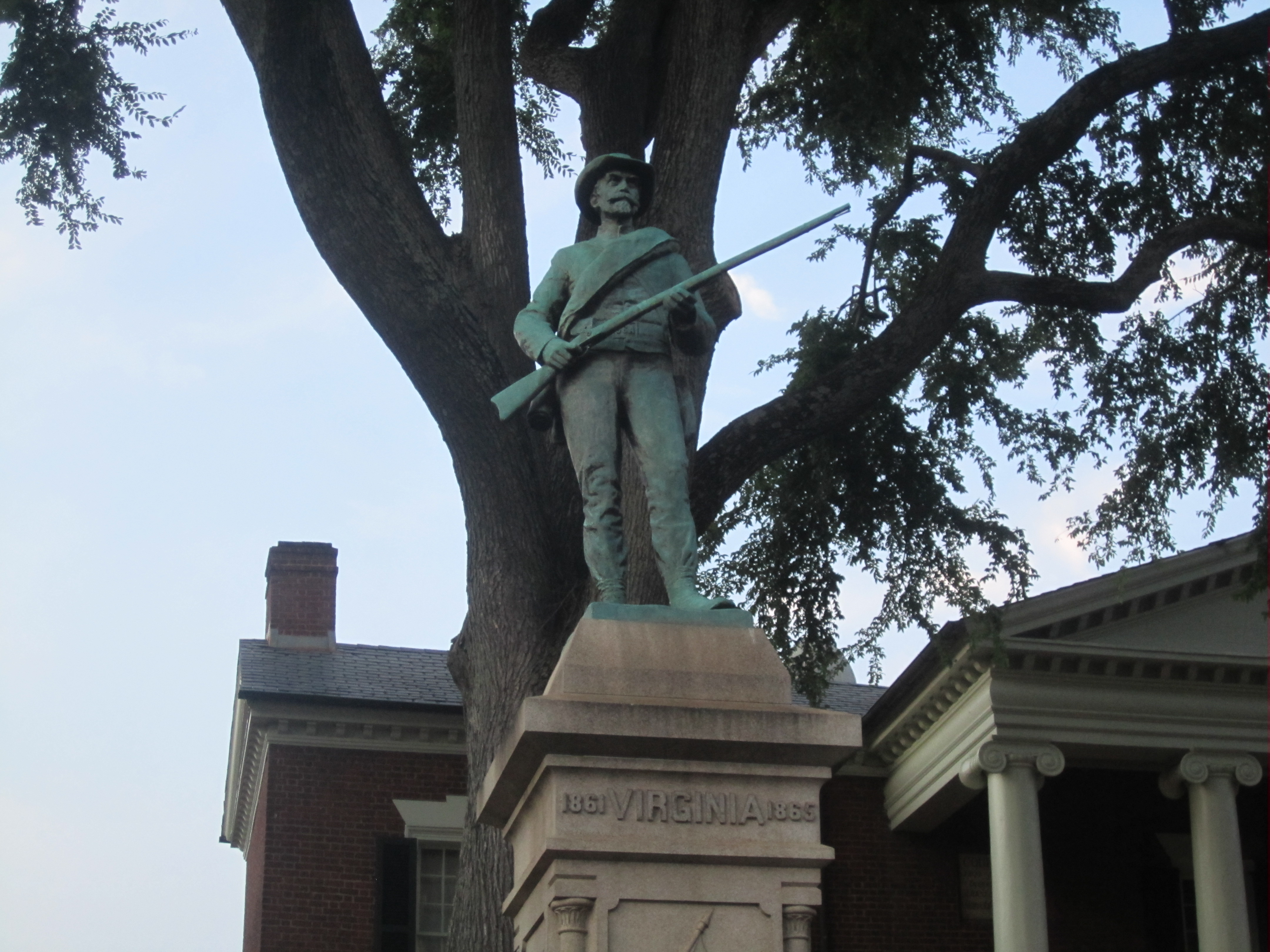 I took photo of Confederate soldier monument in Charlottesville, VA, with Canon camera.